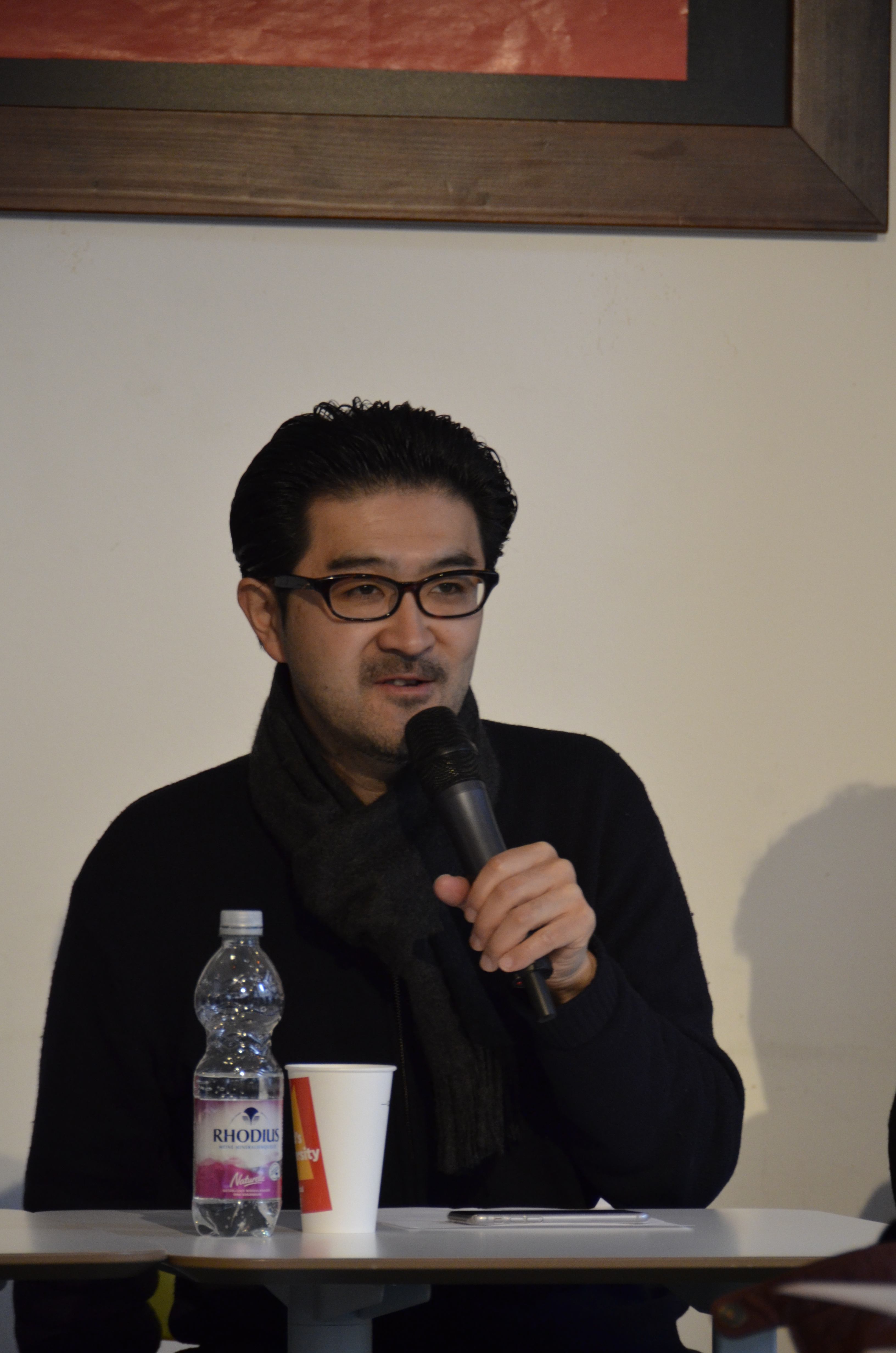 Akira Takayama during the press conference of McDonald’s Radio University.